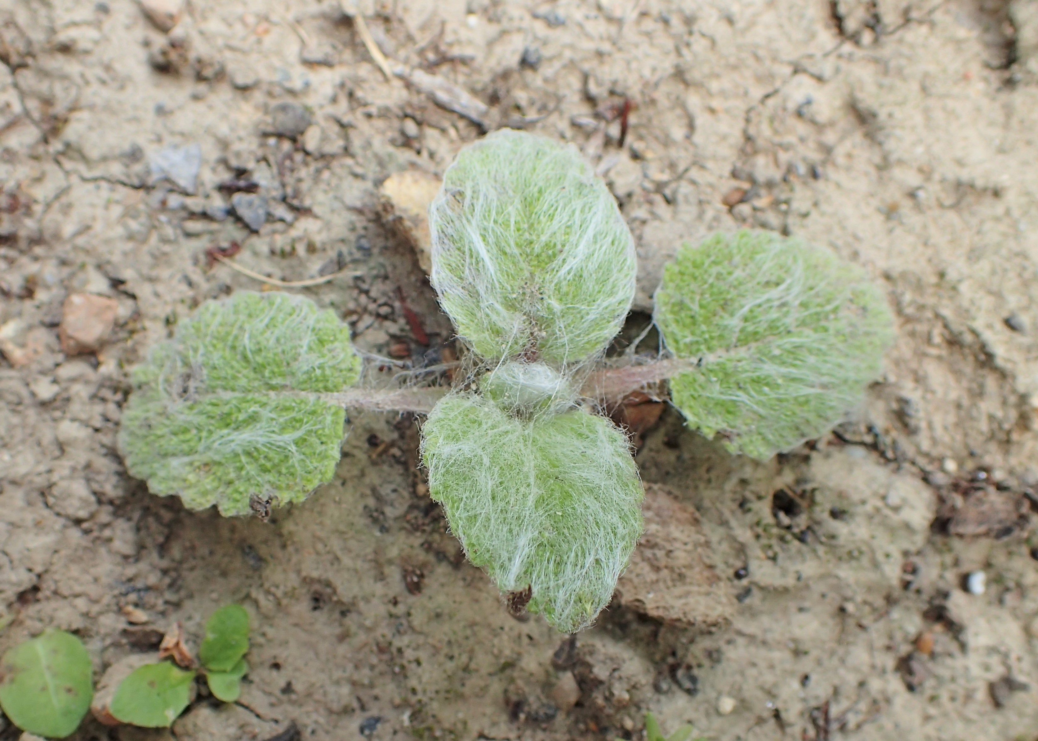 Salvia sclarea seedling in the UMCS Botanical Garden in Lublin